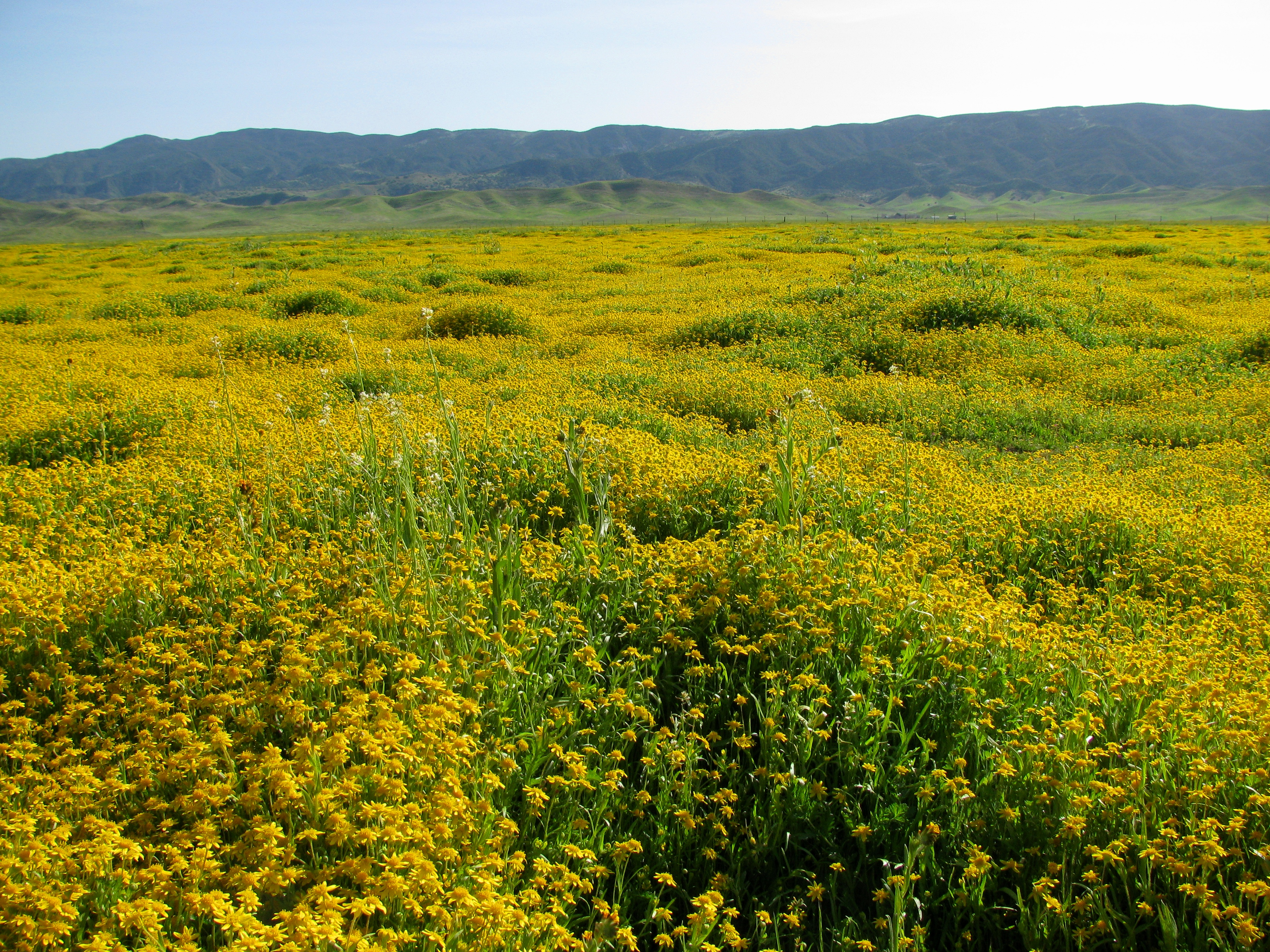 Vast field of Monolopia major and fiddleneck (Amsinckia sp.) — at the Carrizo Plain National Monument grasslands, eastern San Luis Obispo County, central California. March 20, 2009; photo by self, GFDL/equiv